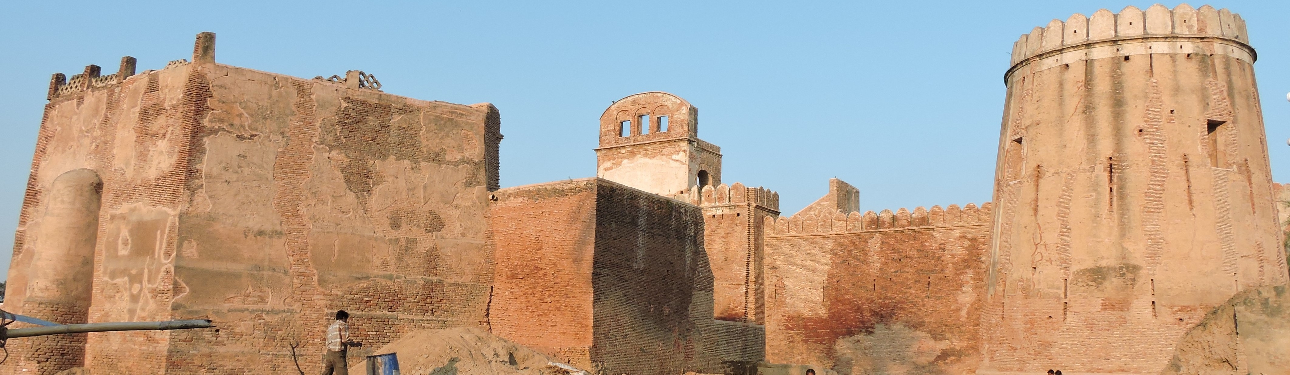 Manauli Fort, district SAS Nagar Mohali, Punjab, India